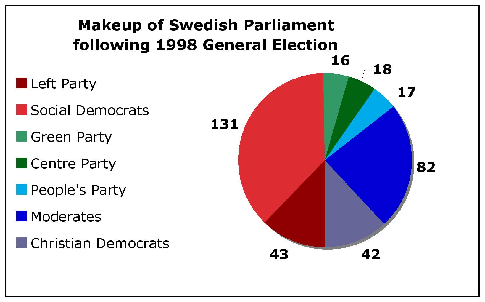 Pie chart of the political makeup of the Parliament of Sweden following the general election of 1998.